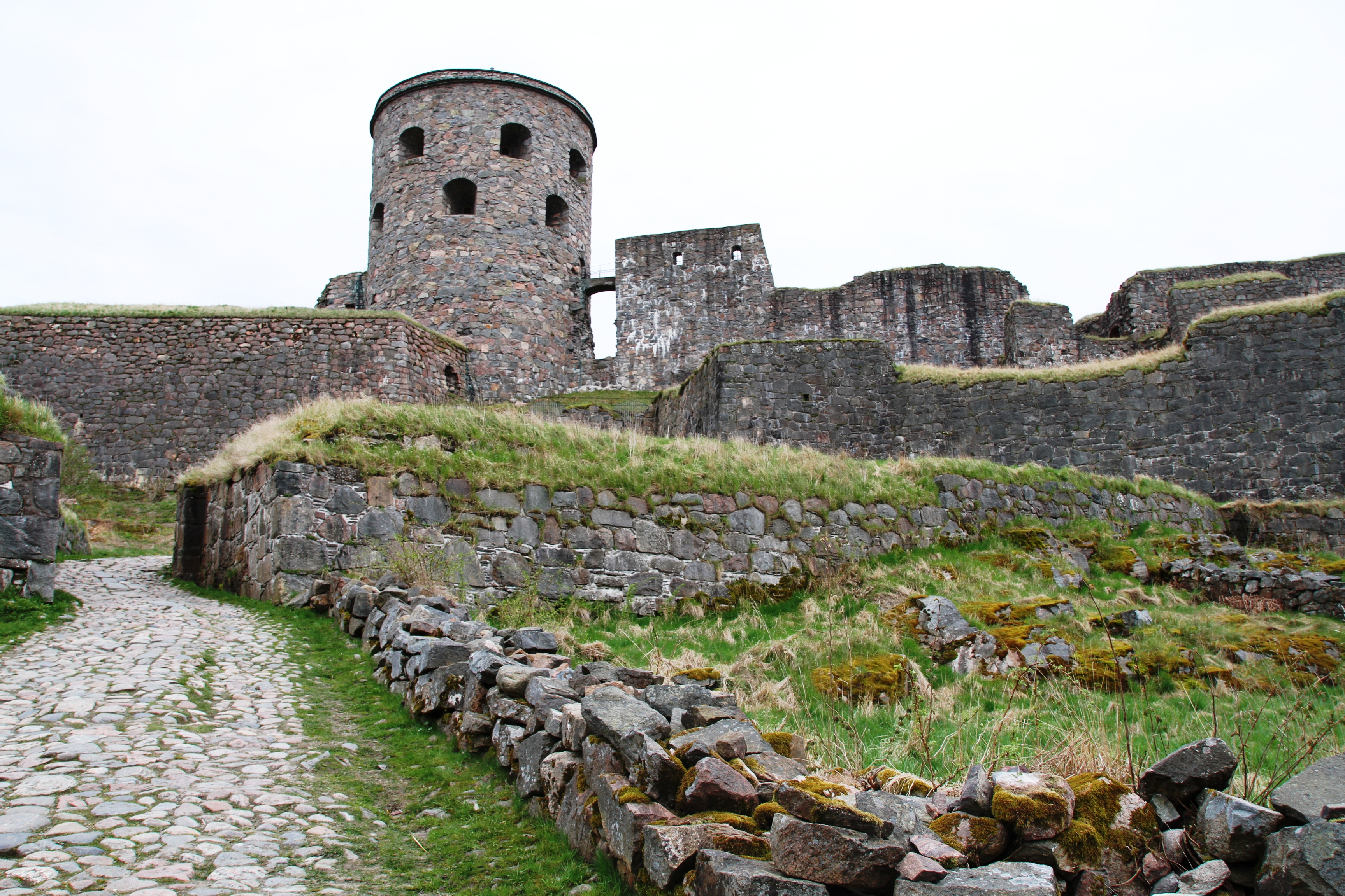 Bohus festning (fort) in Kungälv, just north of Gothenburg - in western Sweden. This was the norwegian border fortress towards Sweden in the high / late Middle Ages.